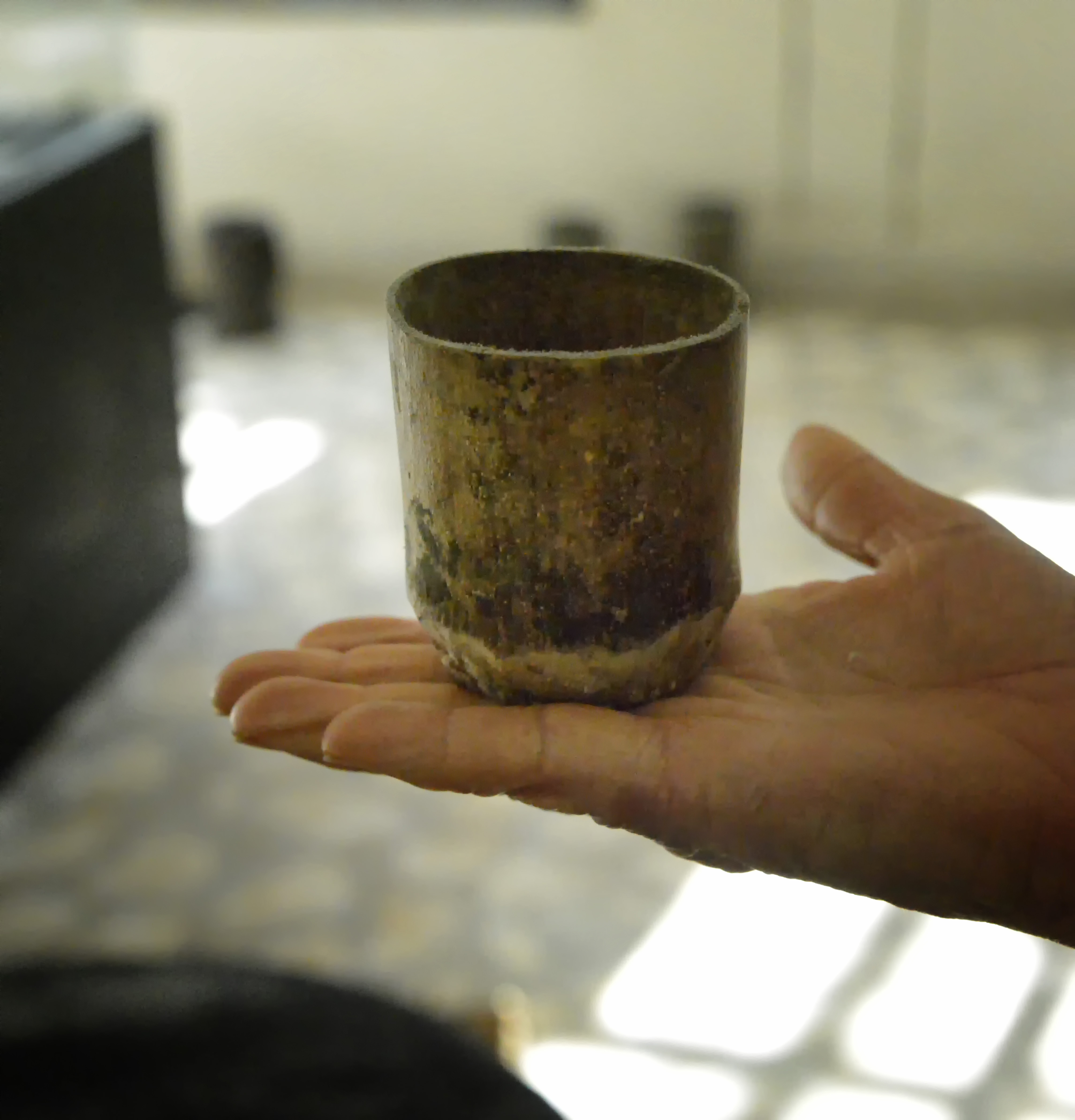 Ancient Coffee Cup, Kafa Tribe, Ethiopia